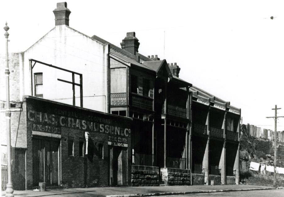 View of southern portion of Darling House site showing the small building used as cooperage c 1918